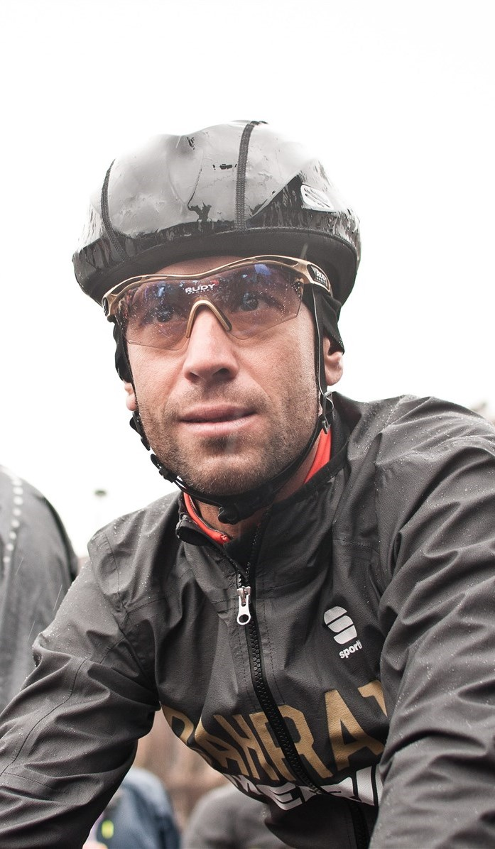 Vincenzo Nibali at the start of the 2018 Milan–San Remo